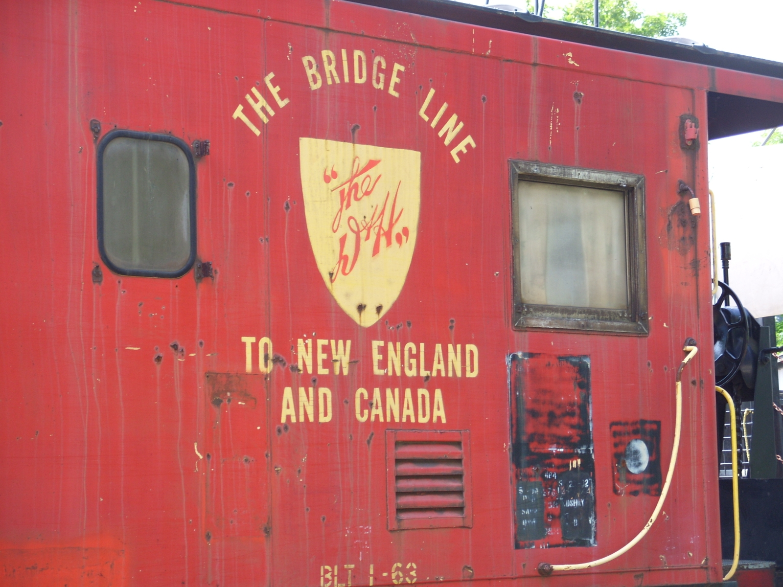 Railway rolling stock and old Delaware and Hudson Railway Station at Milford, NY, near the junction of NY 28 and NY 166